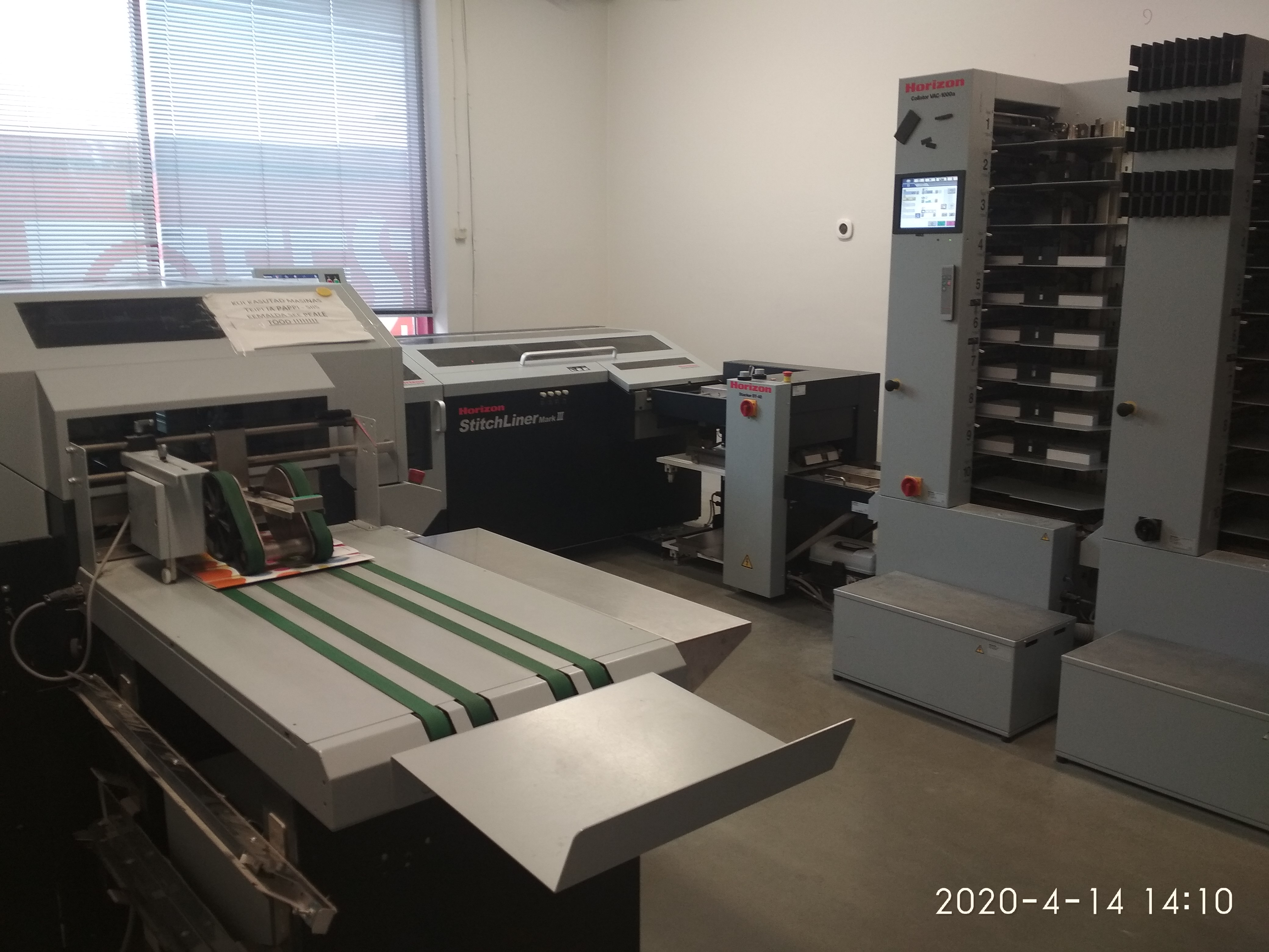 Fully automatic saddle-stitching machine